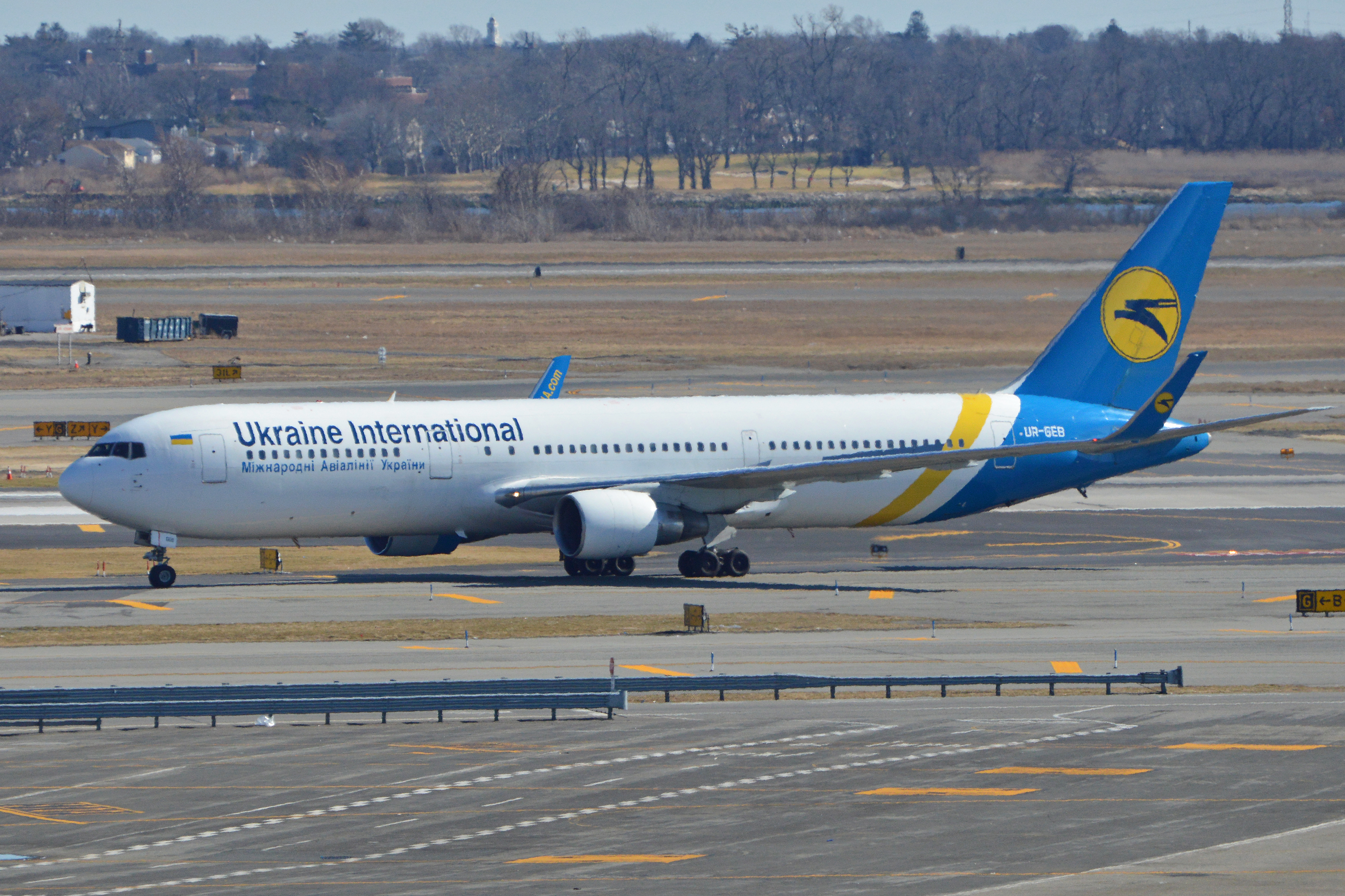 c/n 25530, l/n 414. Built 1992. Taxiing in at JFK Airport, New York, after arriving on flight AUI231 from Kiev. 27-2-2016